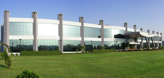 Corporate and Manufacturing Site of Intas biopharmaceuticals Ltd.